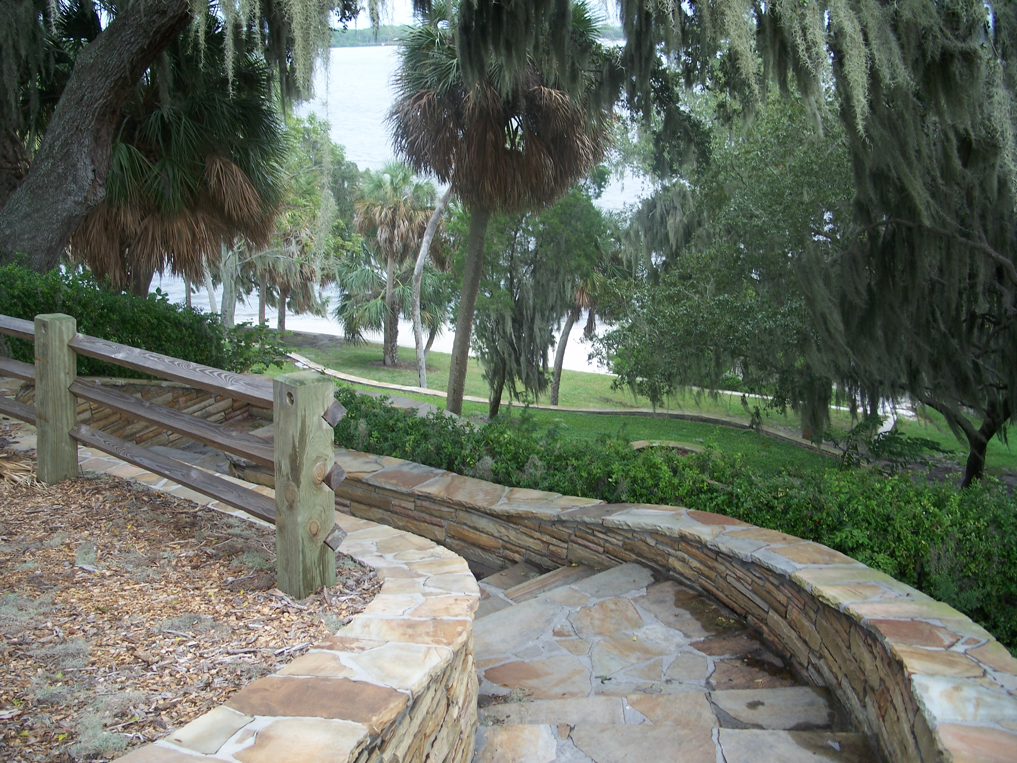 View from the top of the Safety Harbor Site, in Safety Harbor, Florida